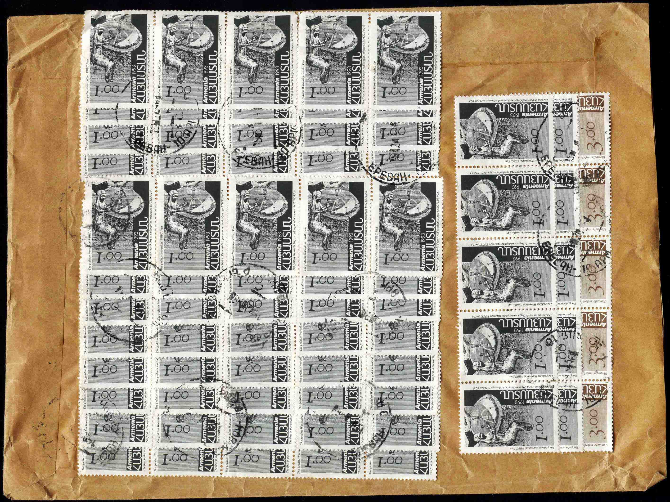 Posted Armenian "Governmental" cover with Armenian 1993 stamps (back), Yerevan.